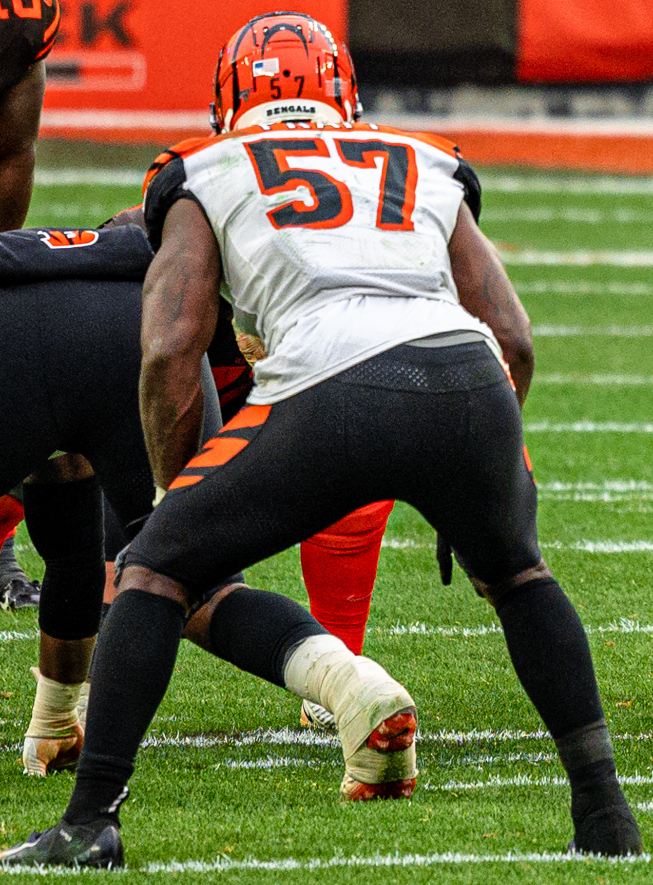 Cleveland Browns vs. Cincinnati Bengals